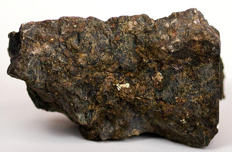 Cubanite, Maucherite, Valleriite Locality: Mackinaw Mine (Weden Creek Mine), Monte Cristo, Monte Cristo District, Snohomish County, Washington, USA (Locality at ) Size: 12.6 x 9.2 x 5.1 cm. A hefty ore specimen, with probably tons of material stuck inside it as well as what you see on the outside, judging by the look of it. I think the cubanite (and associated more rare species) fills thin fracture seams within. On the exposed main face, there are dozens of thin, flat-lying cubanite crystals to 7mm in size. Apparently this specimen was exchanged to the Academy by the Smithsonian. Ex. Philadelphia Academy of Sciences and Smithsonian Institution Collections.